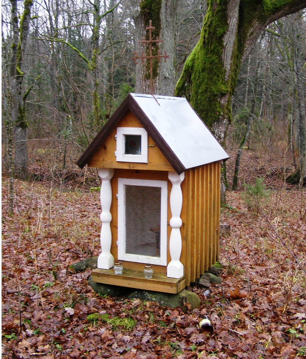 Vaineikiai cemetery, Kretinga district, Lithuania